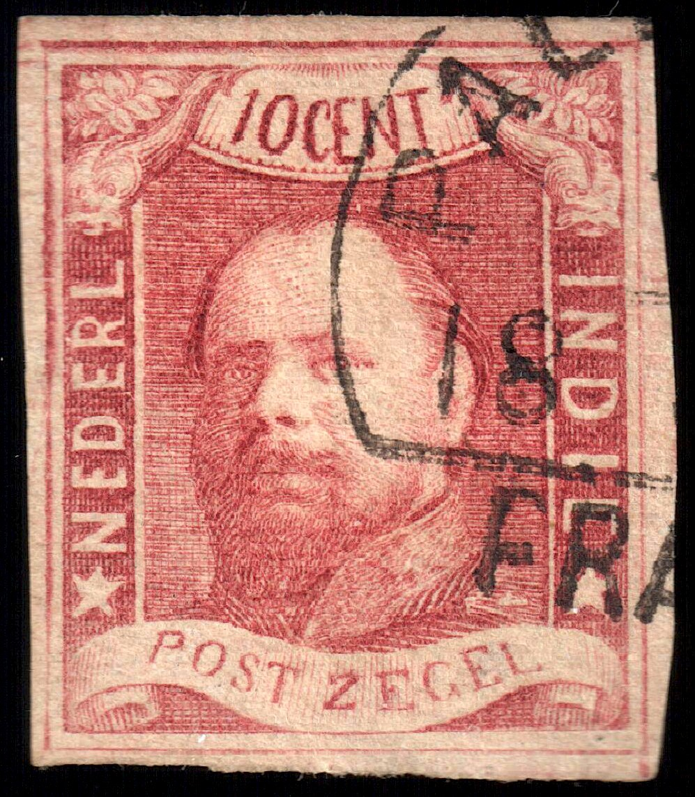 Netherlands Indies first issue of April 1, 1864. Without watermark, imperforate, steel plate printing. 'PAL(EMBANG)' cancel, scarce. Catalogue: NVPH 1 Issue numbers: 2,000,000 Design: J.W. Kaiser (Amsterdam) Engraving: J.W. Kaiser (Amsterdam) Printing: The Mint (Utrecht) Issue date: 01-04-1864 Demonitized: 01-01-1901